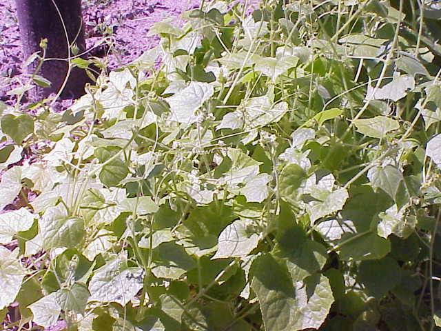 Species: Cyclanthera pedata Family: Cucurbitaceae Image No. 3